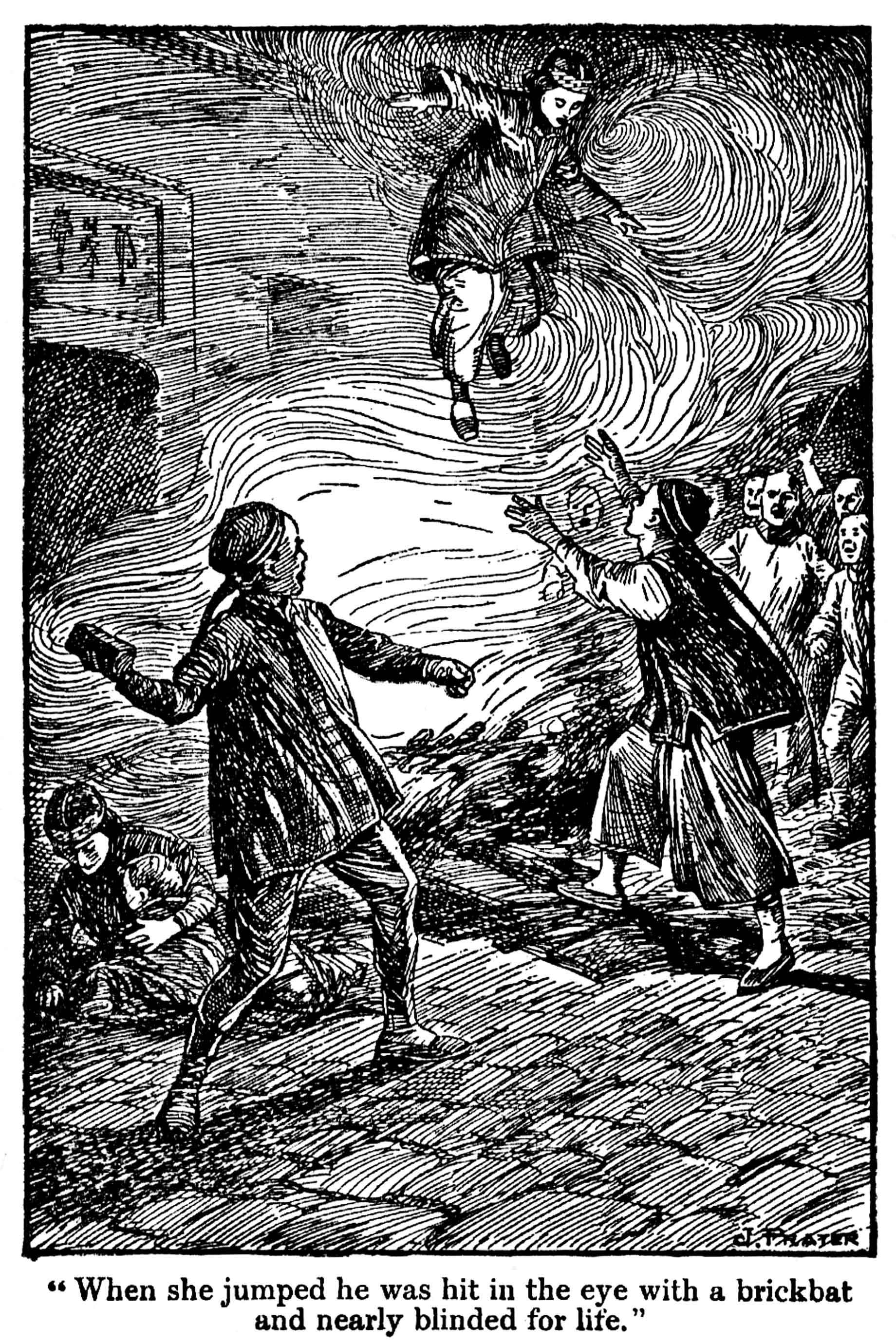 From Hudson Taylor: The Man Who Dared; by Marshall Broomhall 1920 China Inland Mission